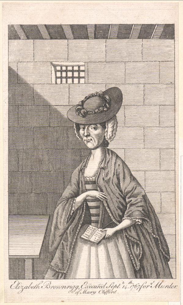 Engraving. "Depicts the murderess Elizabeth Brownrigg in her cell, holding a prayer book. According to the Newgate Calendar, Elizabeth Brownrigg was executed at Tyburn, on the 14th of September, 1767, for torturing her female apprentices to death." Shelfmark: Crime 10 (4a)